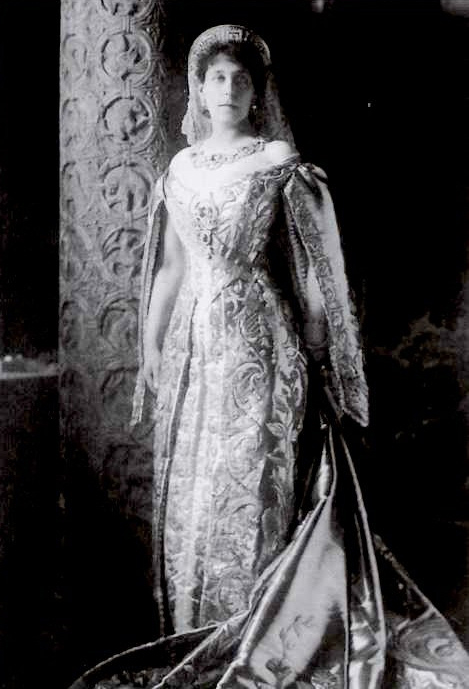 Grand Duchess Viktoria Feodorovna of Russia, née Princess Victoria of Edinburgh and Saxe-Coburg and Gotha